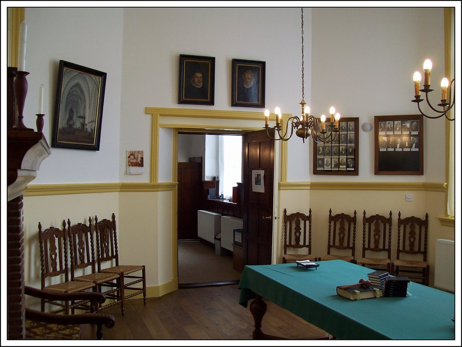 The consistory at the Great Church at Nijkerk (The Netherlands)